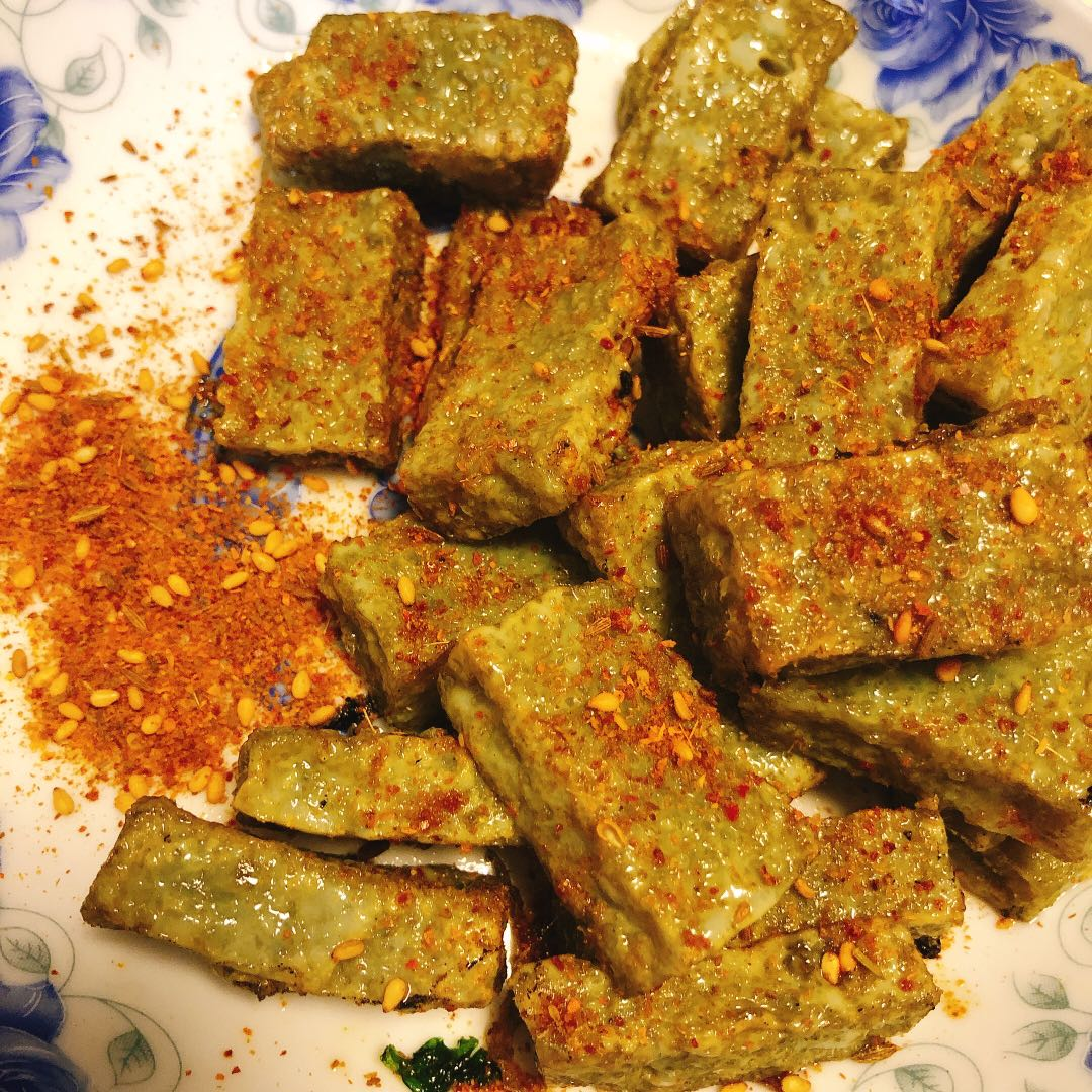 A way to cook eggs in northeastern China